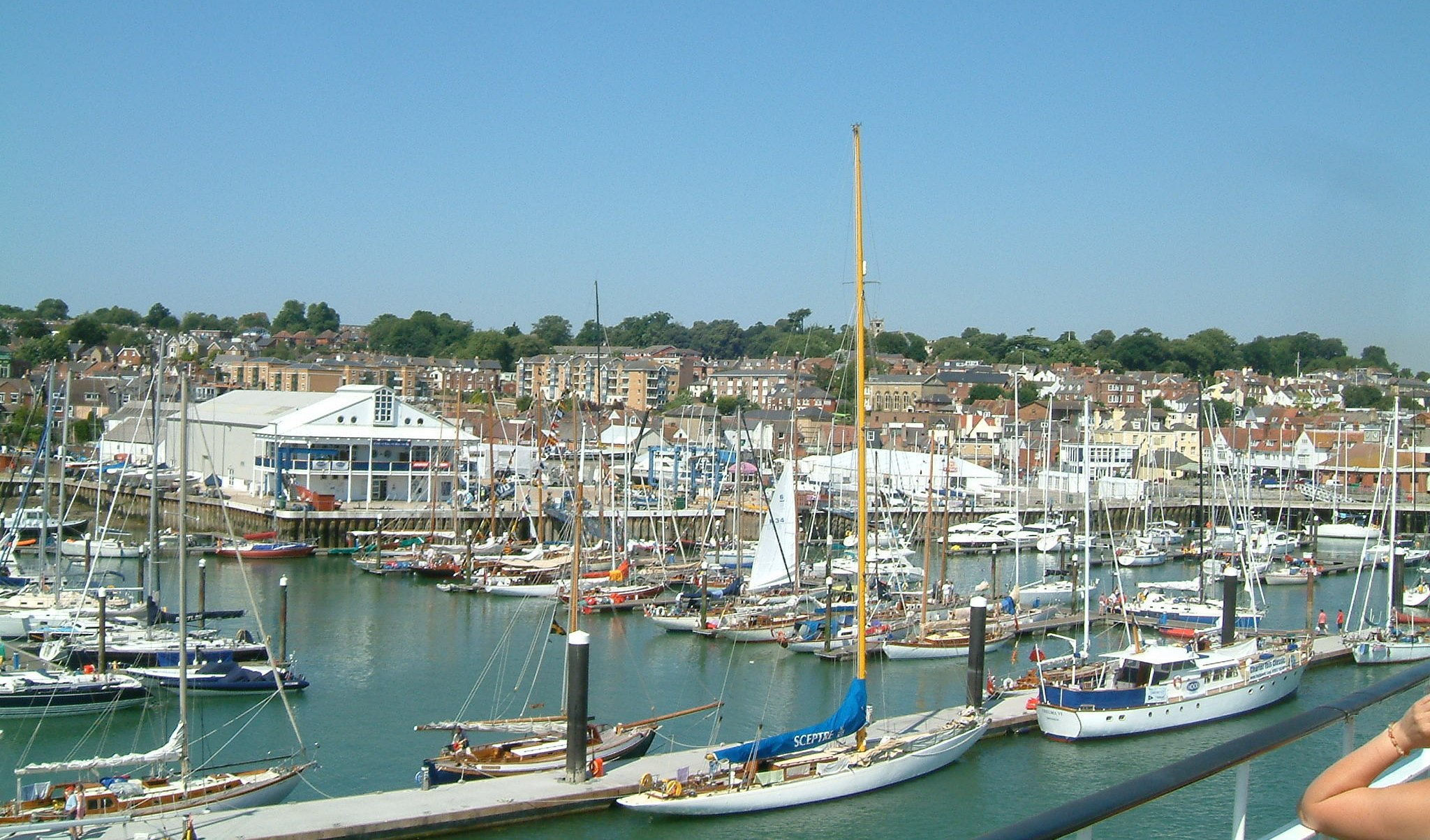 Cowes et East-Cowes, Island of Wight, UNITED KINGDOM